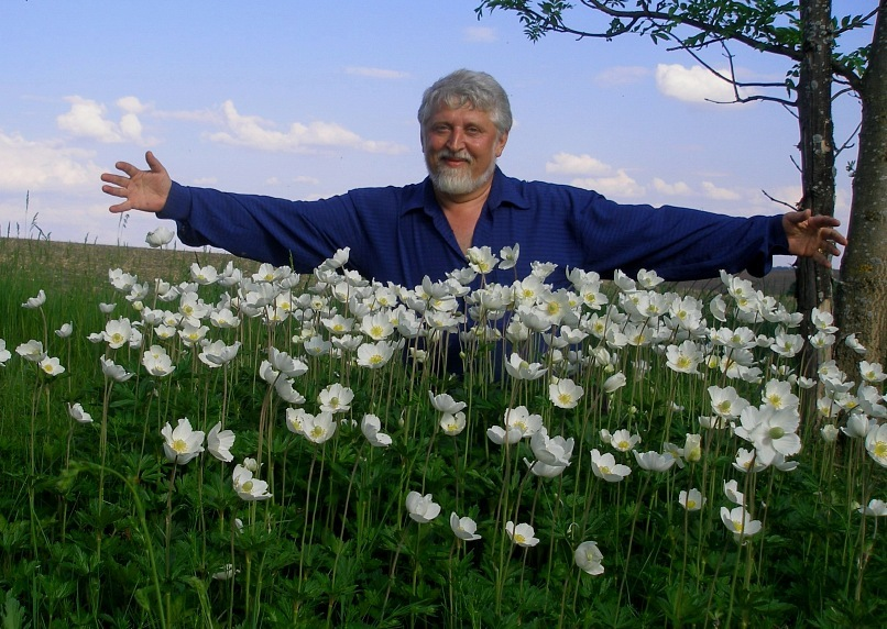 Bulava Leonid